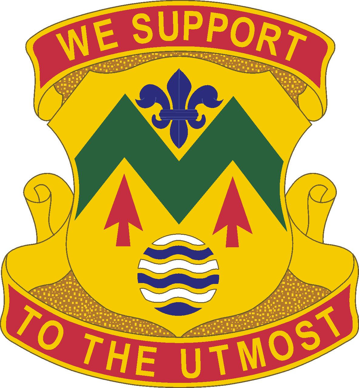 528th Support Battalion Distinctive Unit Insignia